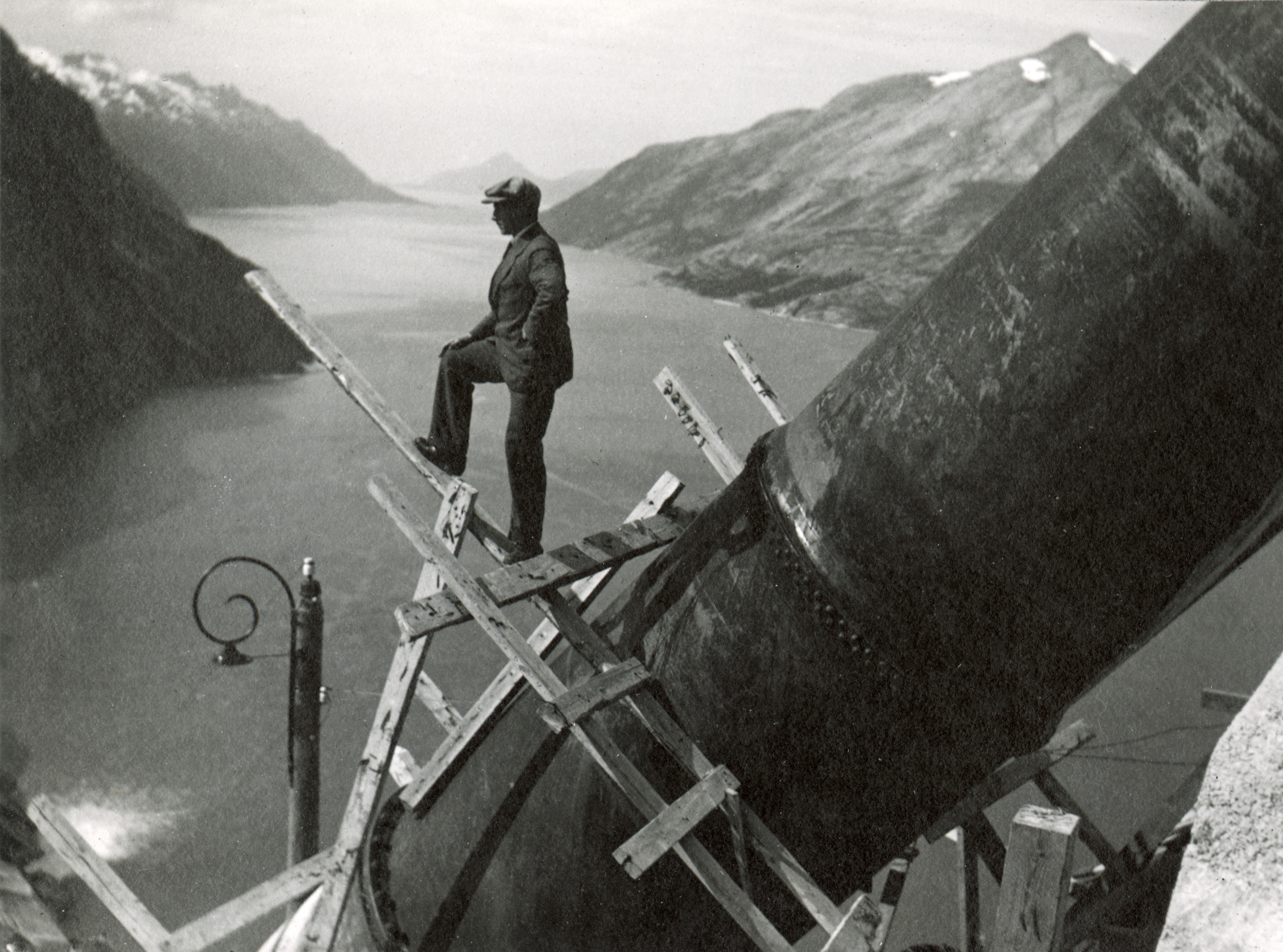 View towards Glomfjord. Pipeline in the foreground. Male (Bernt Lund) posing on scaffolding at the penstock.